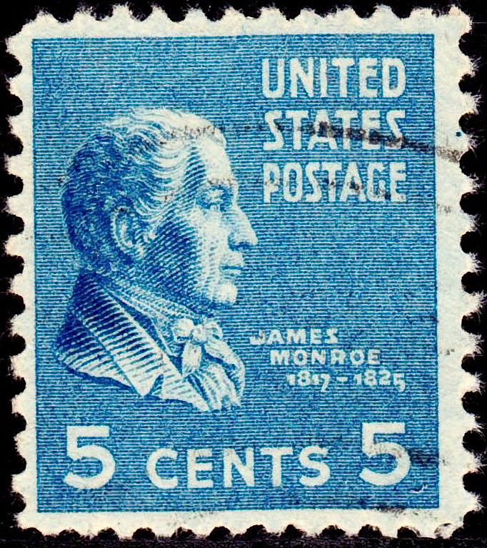 US Postage stamp: James Monroe, Issue of 1938, 5c